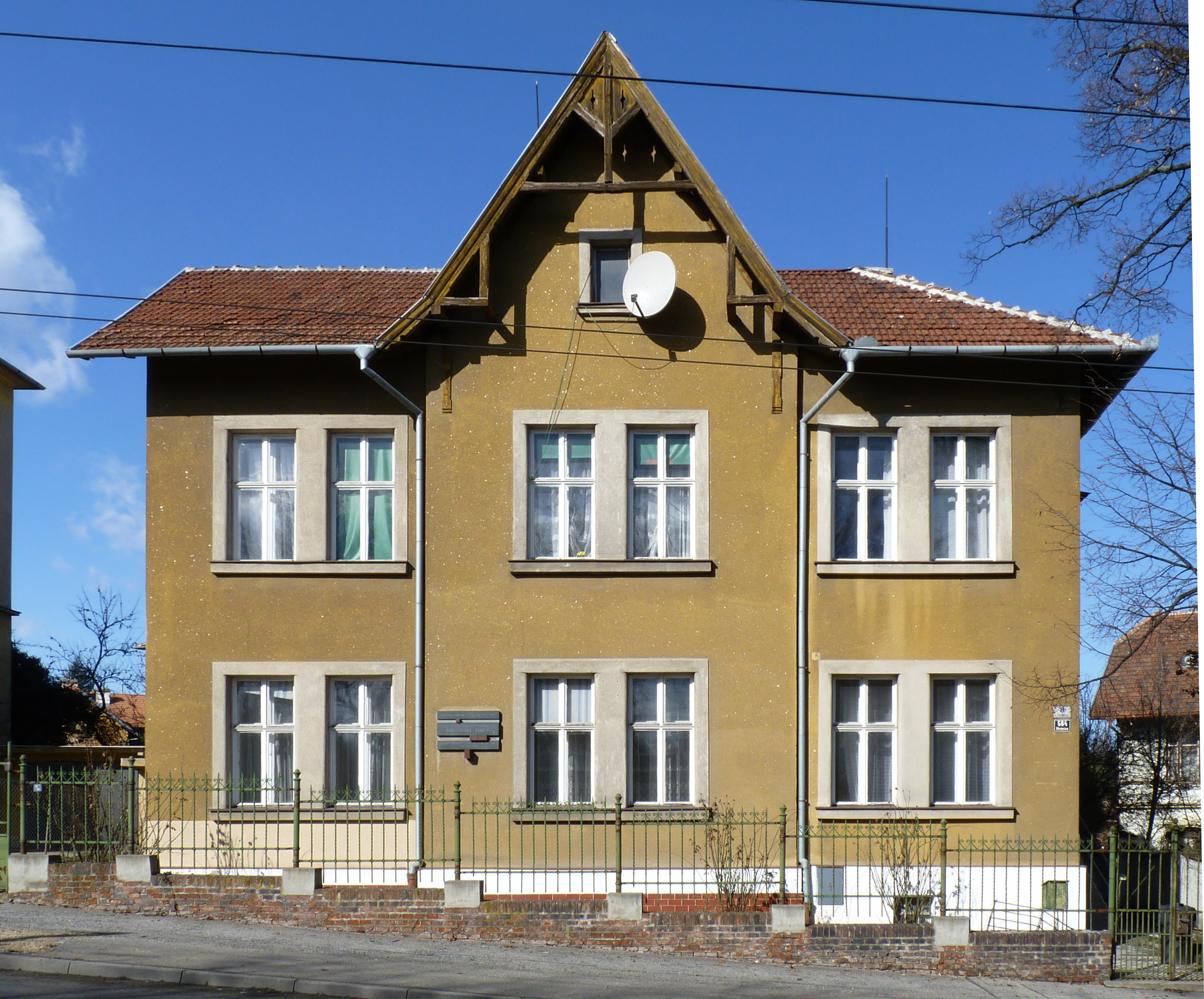 House where lived Czech philosopher Josef Tvrdý between 1923-1941. Brno, South Moravian Region, Czech Republic